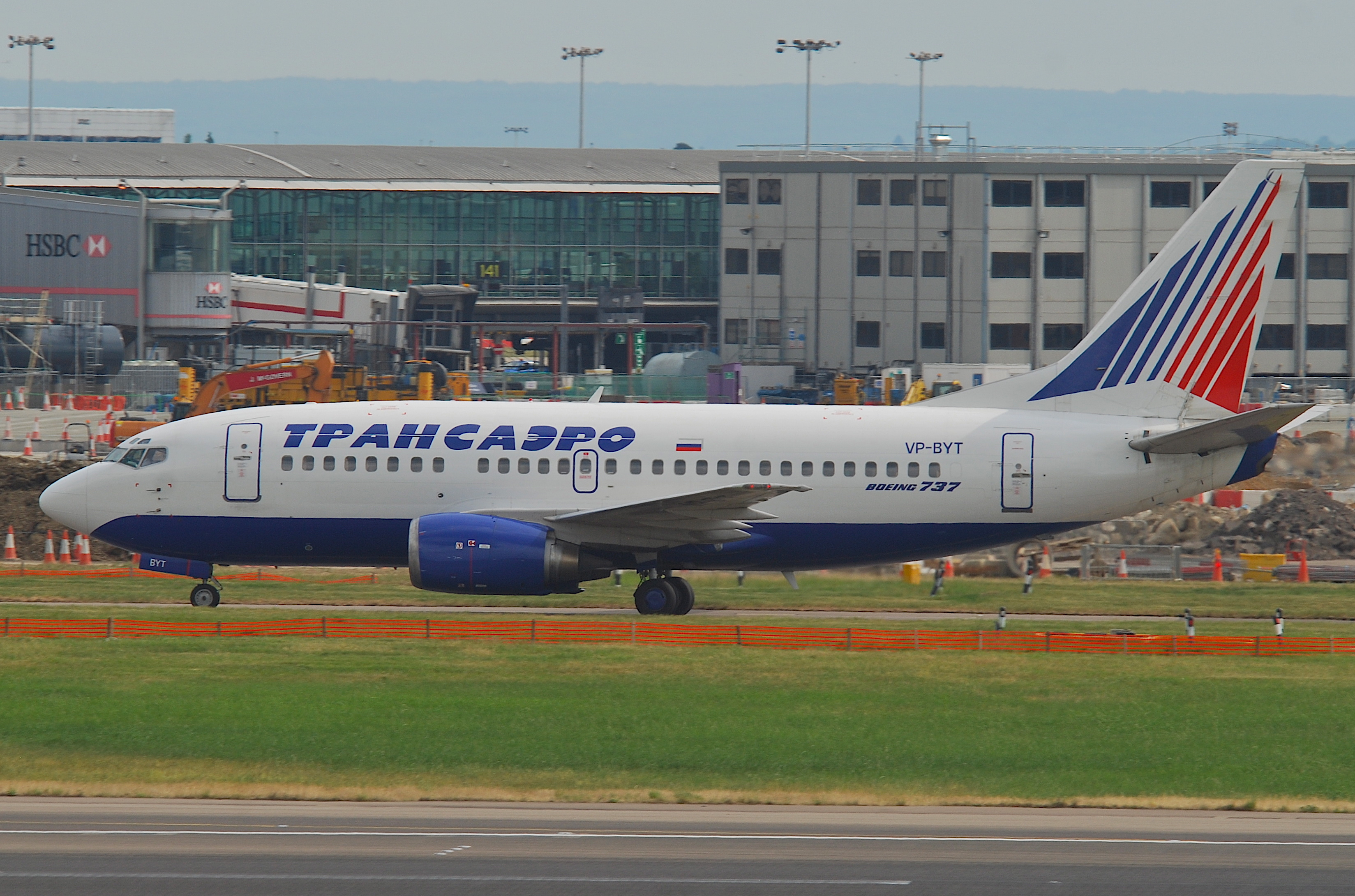 This Boeing 737-524 took its first flight on September 27, 1998... (c/n 28928/ 3077) 19/10/1998 Continental Airlines N14668 stored 09/2008 10/06/2009 Transaero Airlines VP-BYT